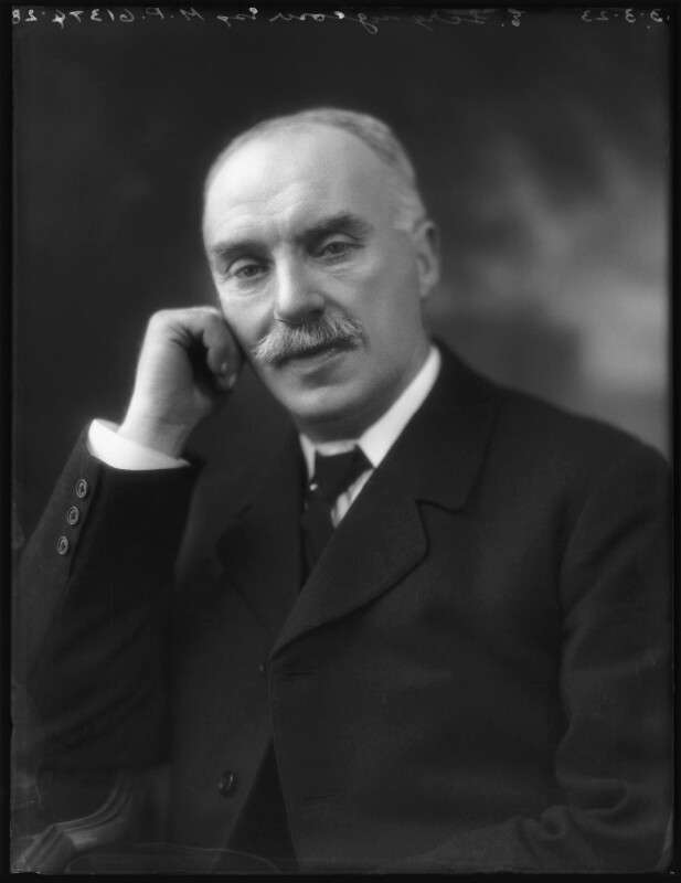 Edwin Scrymgeour by Bassano Ltd whole-plate glass negative, 3 March 1923 Given by Bassano & Vandyk Studios, 1974